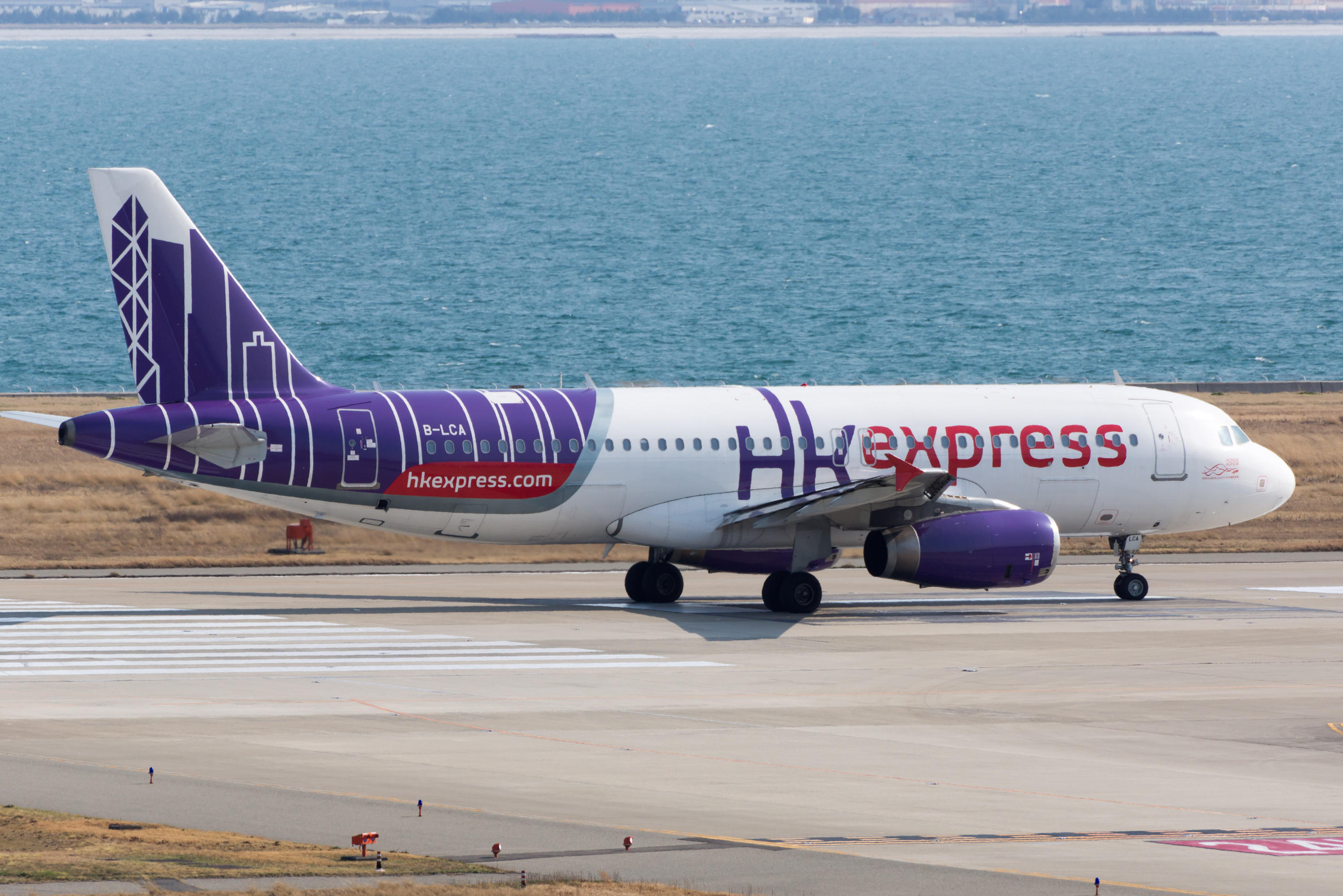 HK Express Airbus A320-232